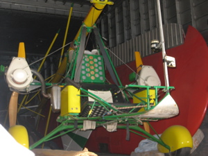 Fly Away Home aircraft